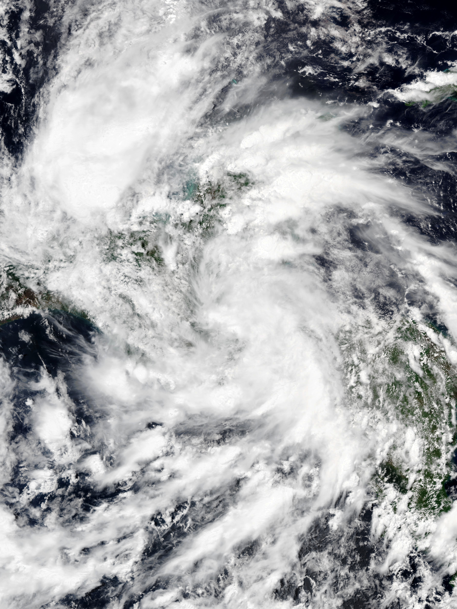 Tropical Depression Amanda weakening over Guatemala on May 31, 2020